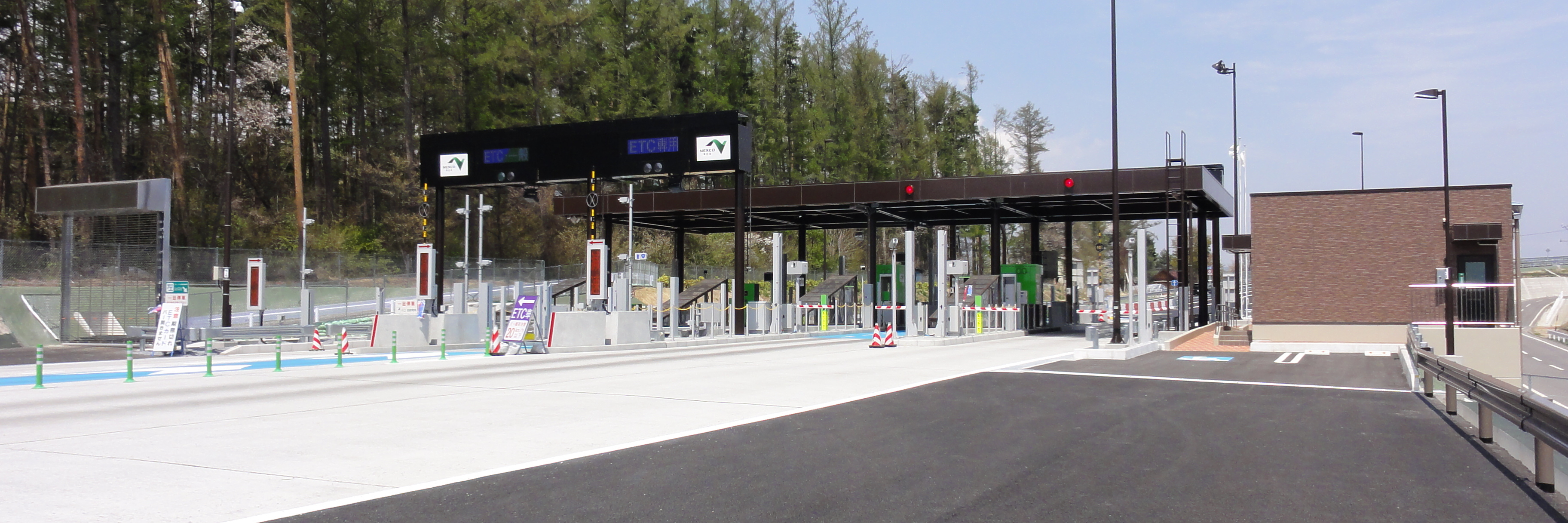 Komoro-Mikage Toll gate,Nagano Prefecture, Japan